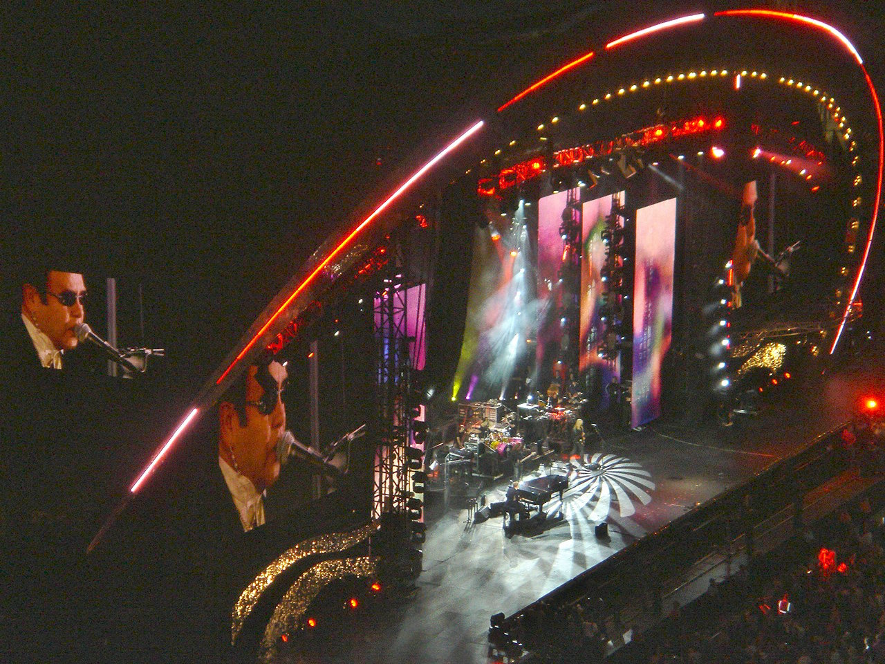 Elton John performing at the Concert for Diana, Wembely Stadium, London, 1 July, 2007